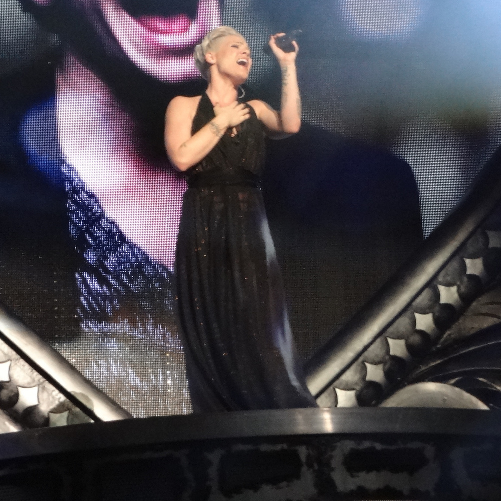 Pink performing "Just Give Me A Reason" at a concert alongside a video of Nate Ruess